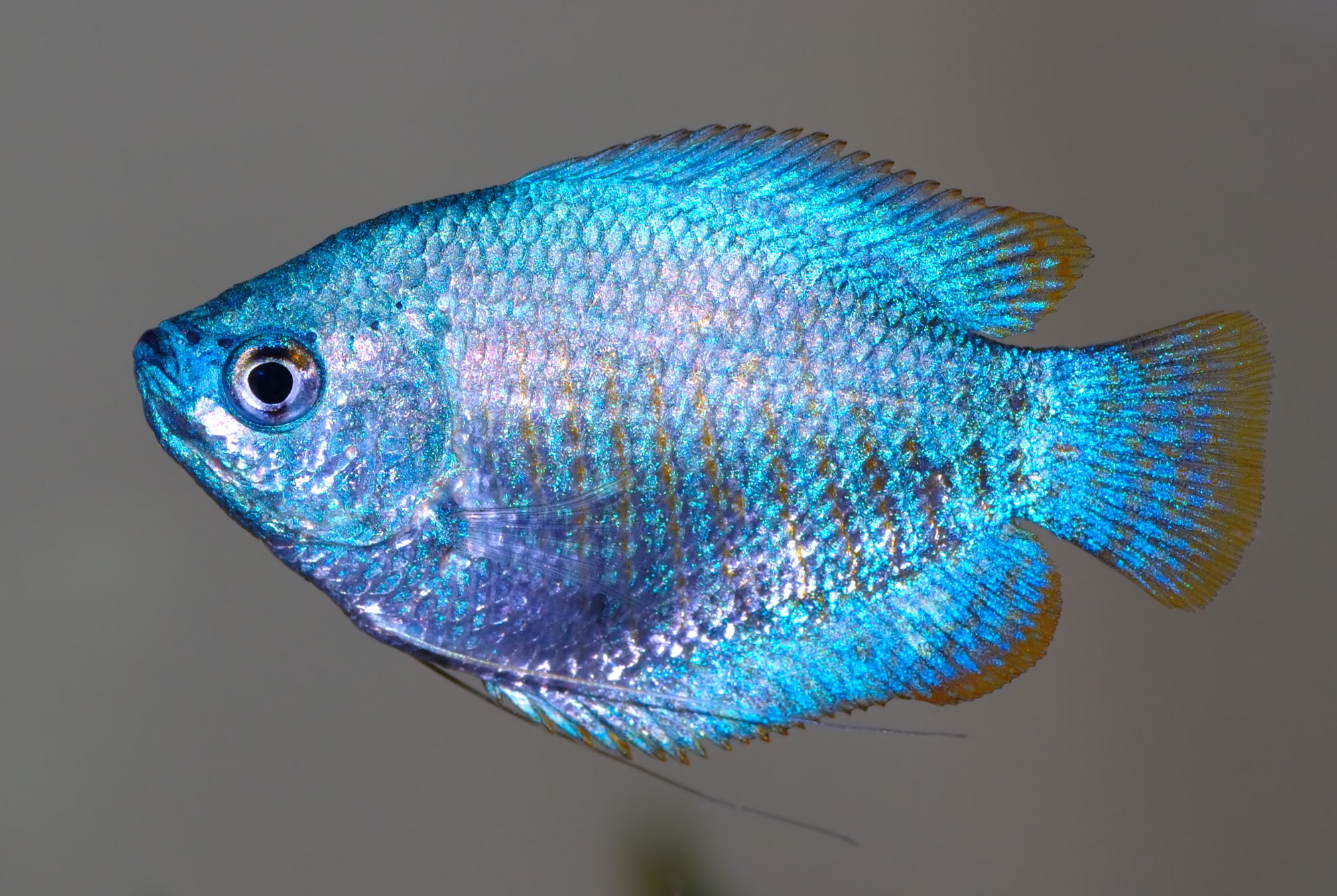 This image shows a Dwarf Gourami female (Colisa lalia).